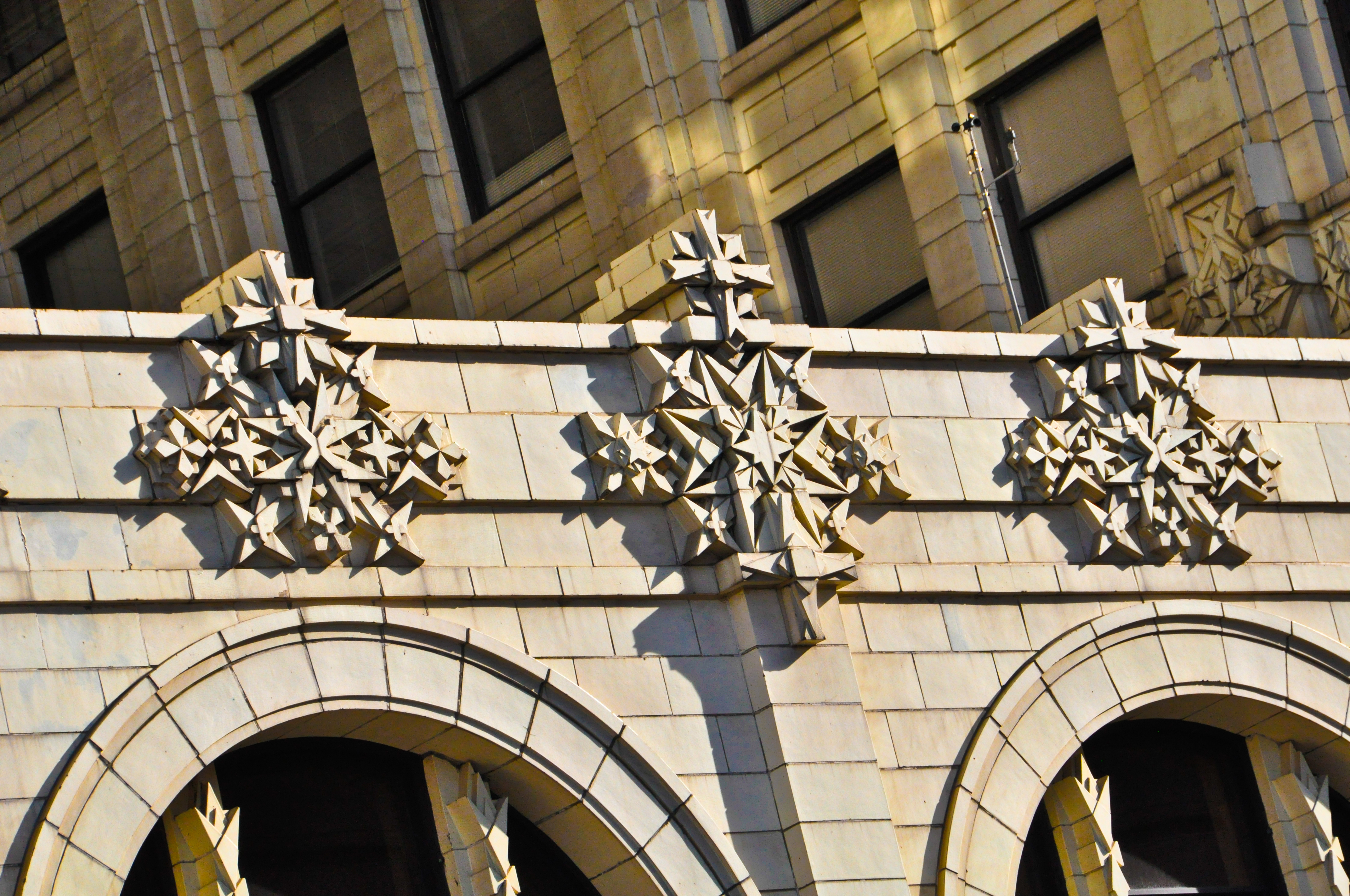 The Standard Building in downtown Cleveland is decorated with a terracotta starburst motif.